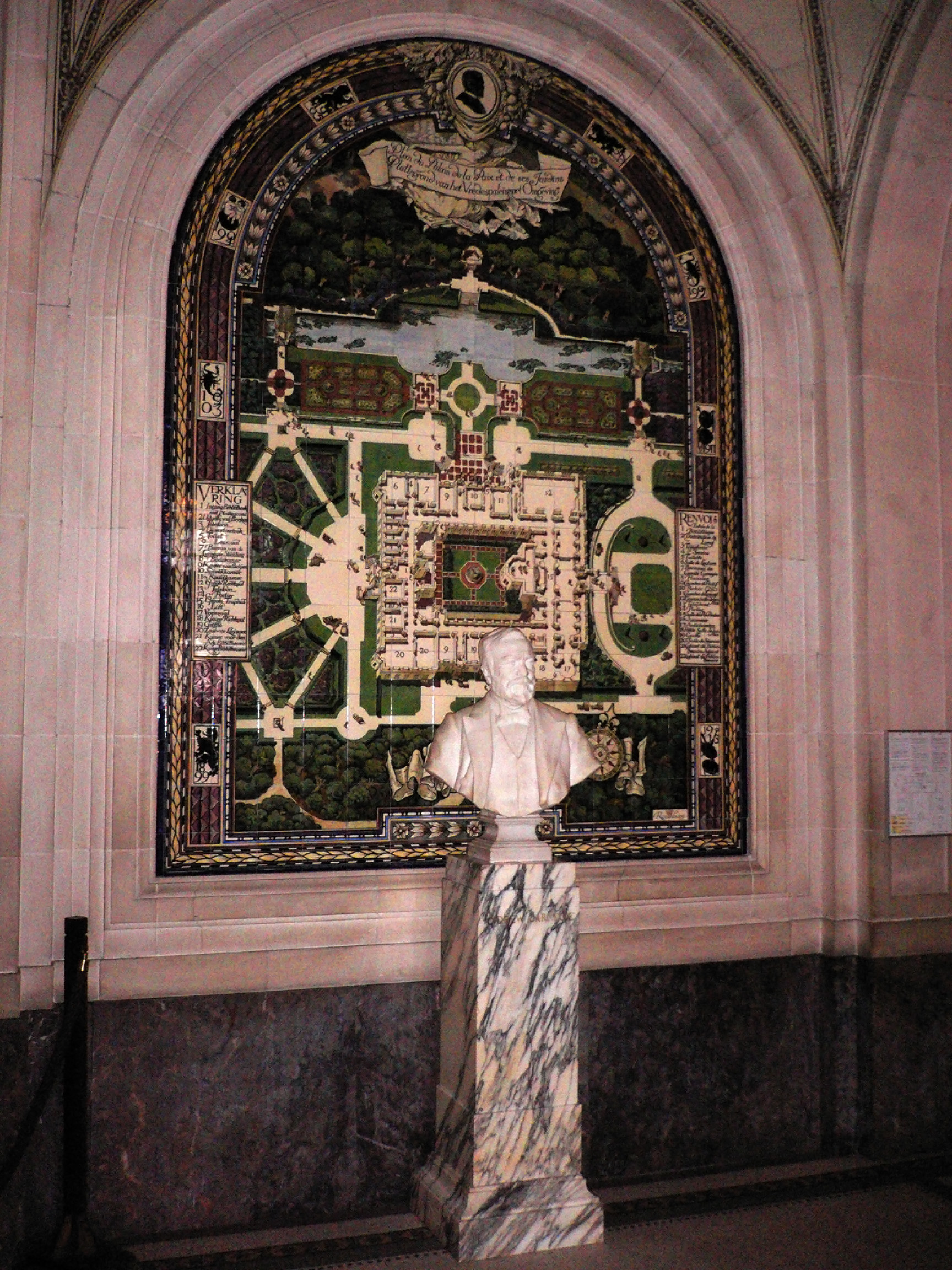 Bust of Andrew Carnegie who financed the construction of the Palace. The bust is in front of the original plan of the palace from the time of its construction. The bust can be found at the back of the palace by the fountain and garden.